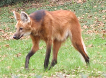 Maned Wolf Taken at by me Ltshears at the Louisville Zoo, November 5th 2006.